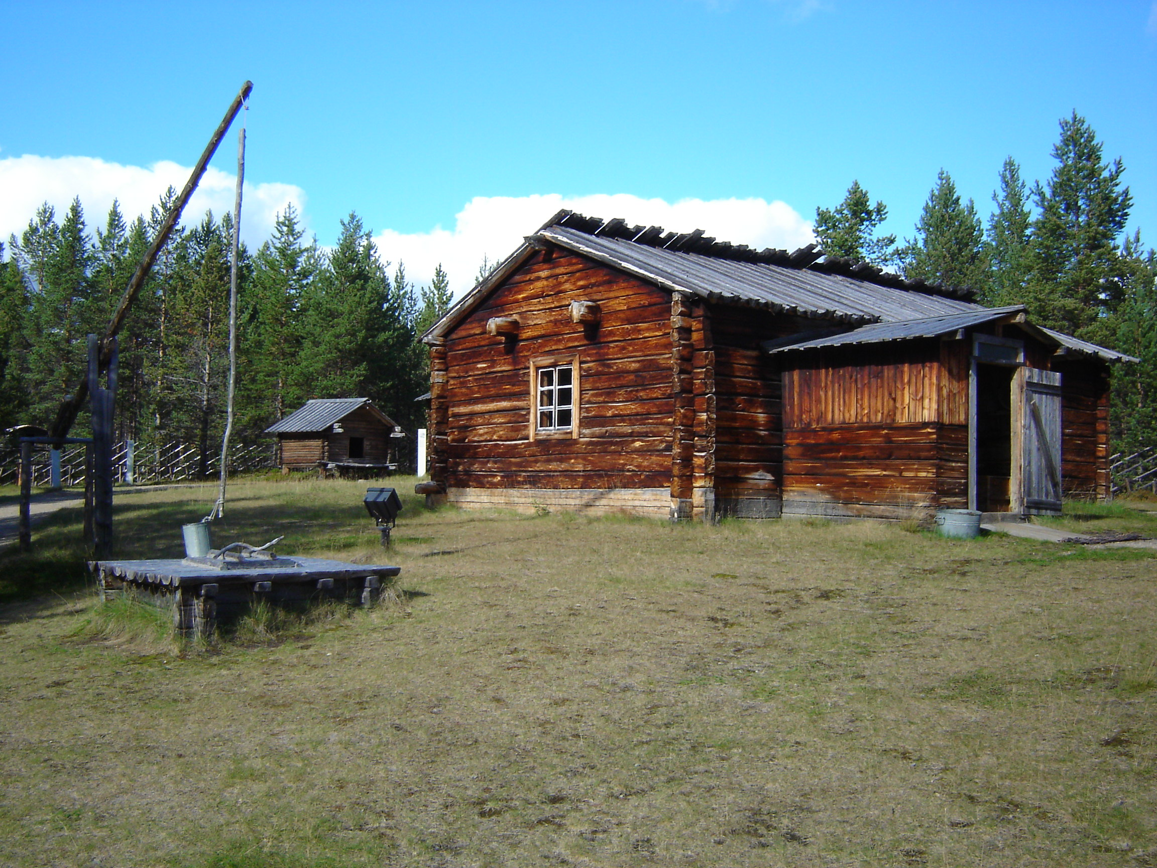 Open air exhibition of Siida Sami museum in Inari, Finland